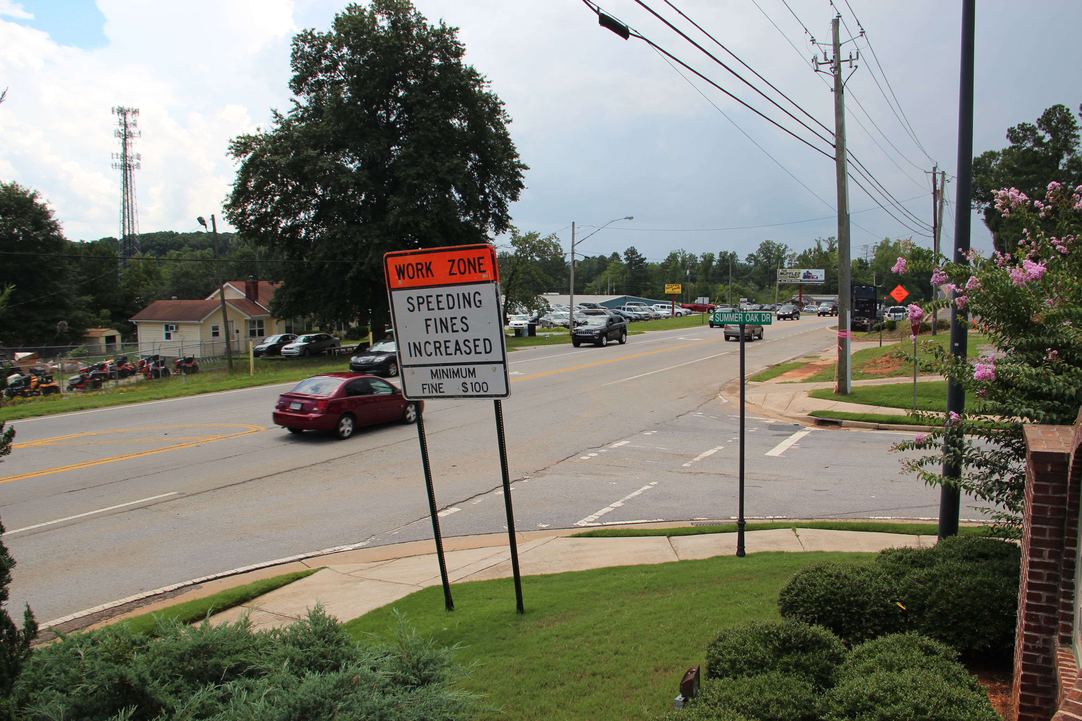 GA State Route 13 in Rest Haven, Georgia, July 2016